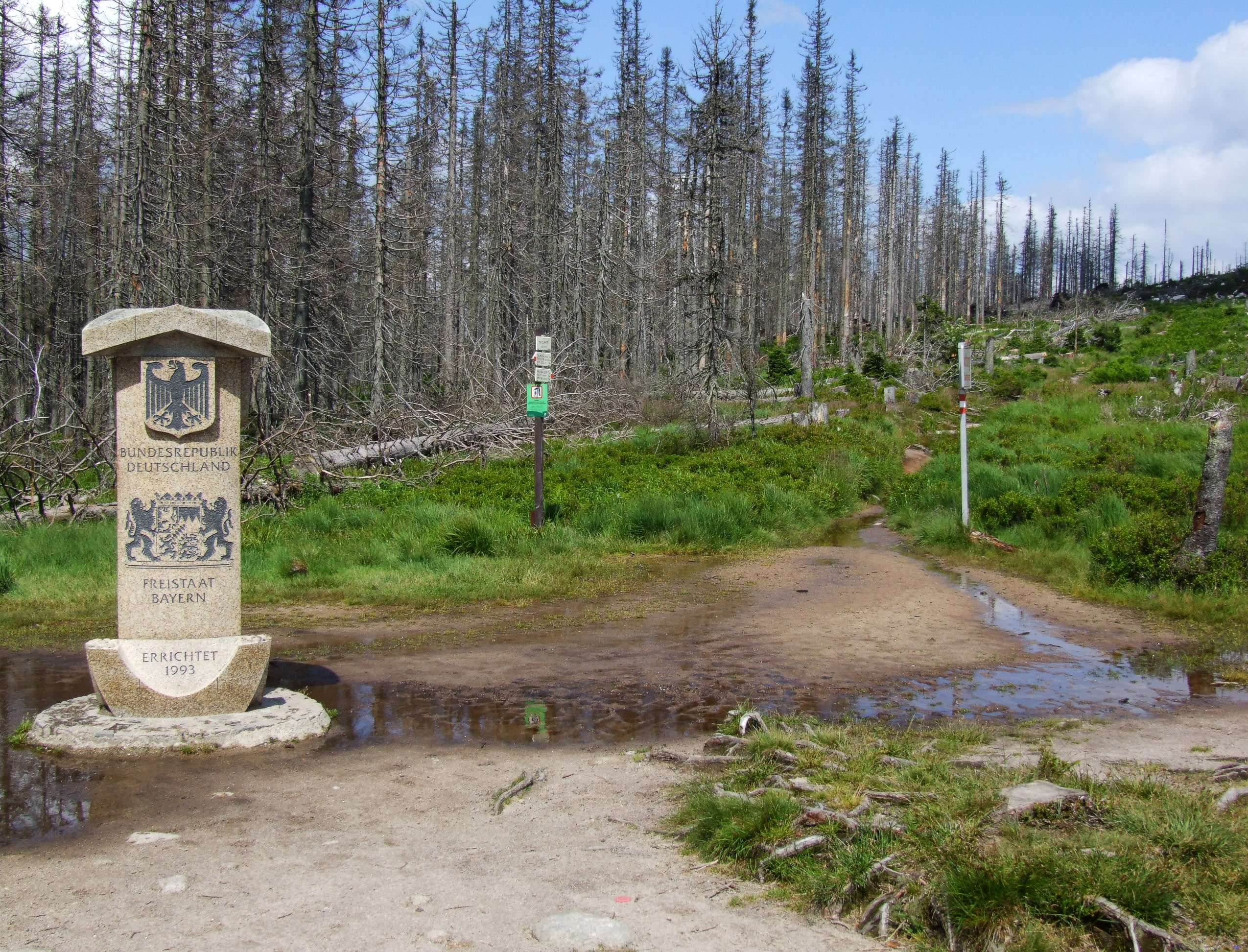 Tripoint CZE-GER-AUT, Šumava (Böhmerwald)